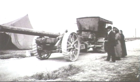 The AWM description reads "FRANCE, 1918. A BRITISH 'LONG TOM' GUN AND TRACTOR". Comment : This is a 6 inch Mk XIX Gun mounted on a 8 inch Mk VI howitzer travelling carriage, being towed by a Holt tractor. NOTE : This version of the photograph has brightness and contrast artificially increased to highlight details.